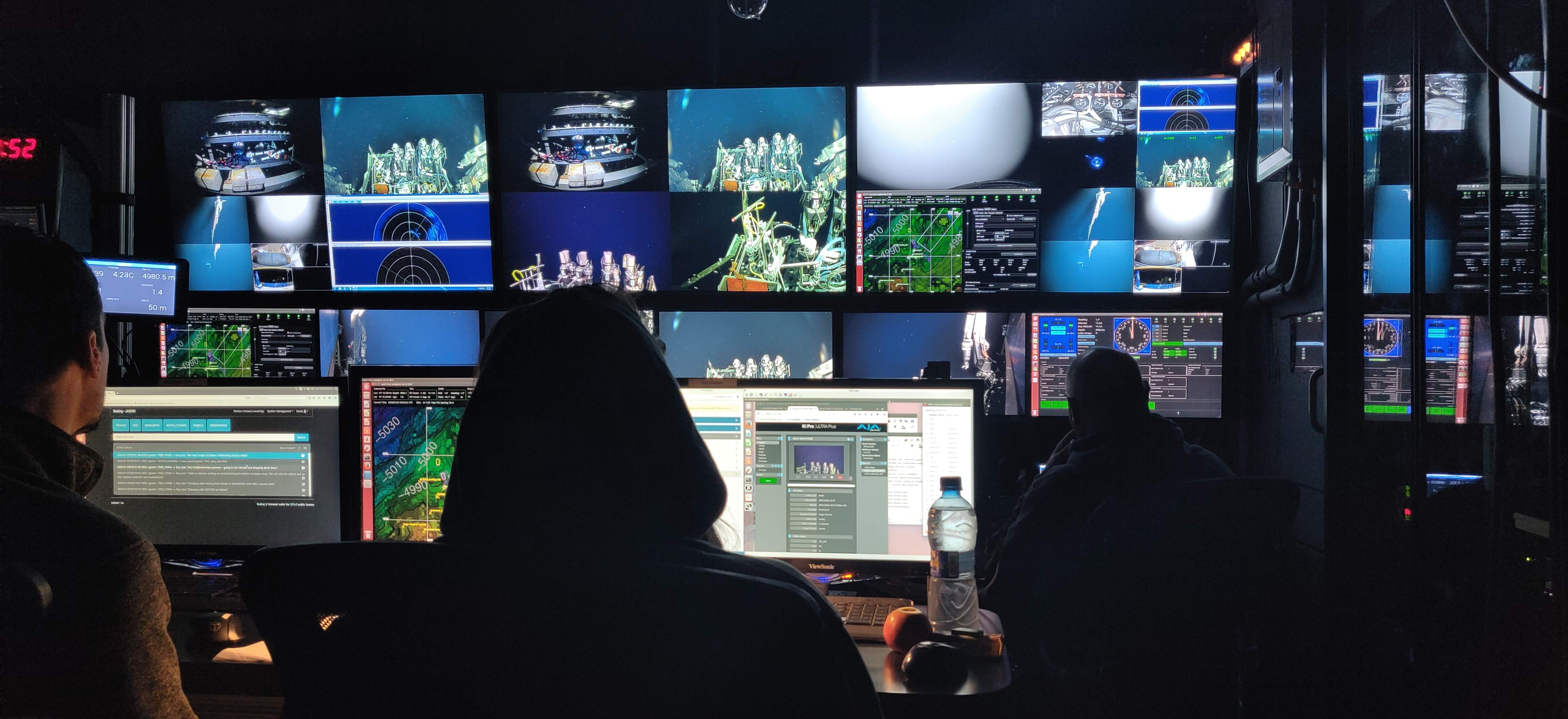 The control van for both Jason and Madea. 3 ROV operators sit at the front wall of screens during a "watch", often with a science watch leader and two aides at the back to populate the event logger and record video.